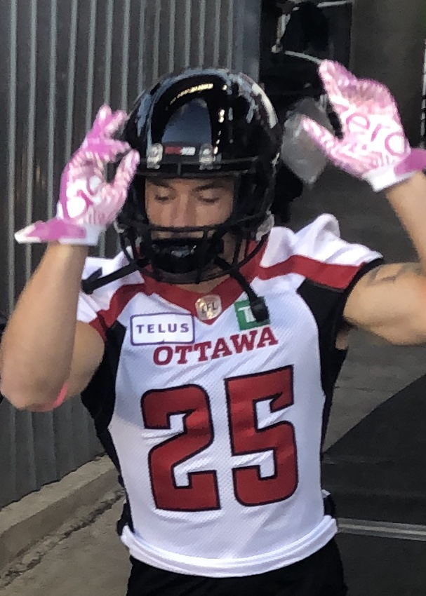 Brendan Gillanders, running back for the Ottawa Redblacks.